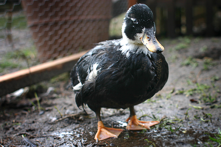 A Call Duck, in a color of plumage called Magpie by breeders.